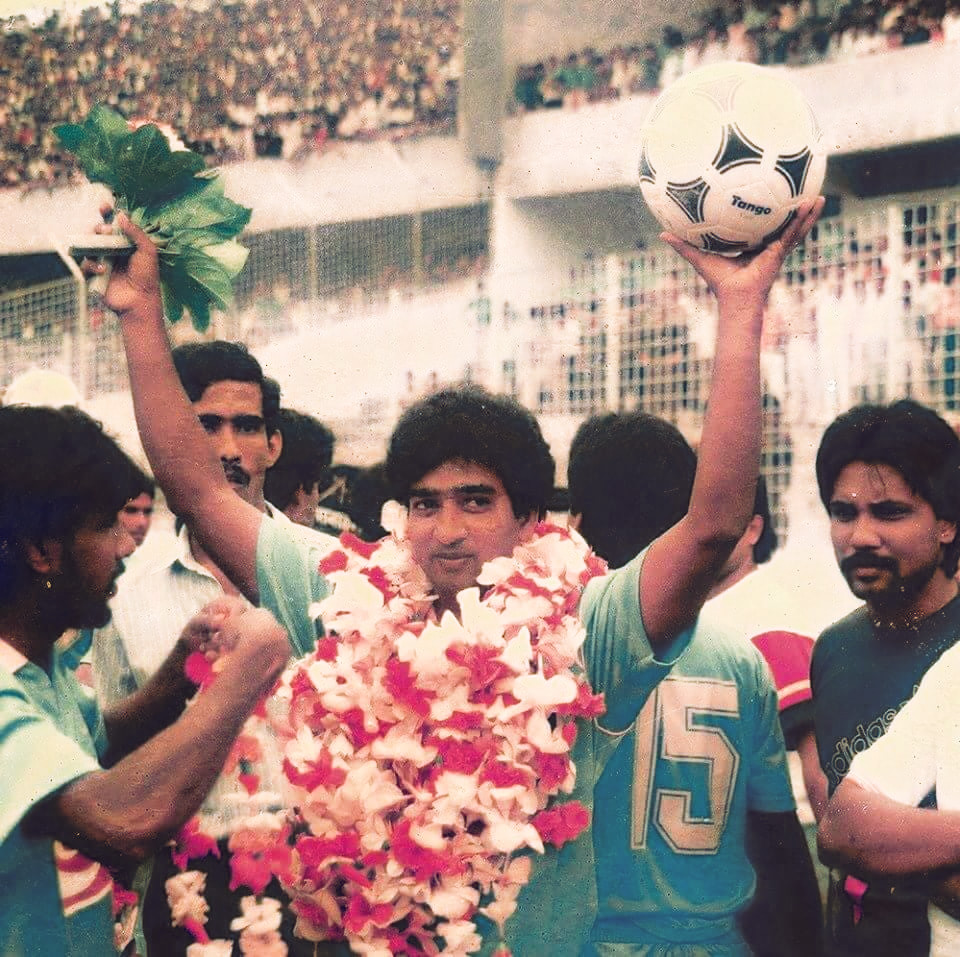 1988, the last day of Ashraf Uddin Ahmed Chunnu in Abahani Limited's colors.